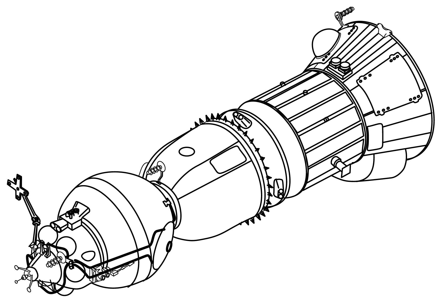 L2 (Lunar Orbit Module). At the front of the spacecraft (left) is the Aktiv unit of the lunar mission Kontakt docking system.